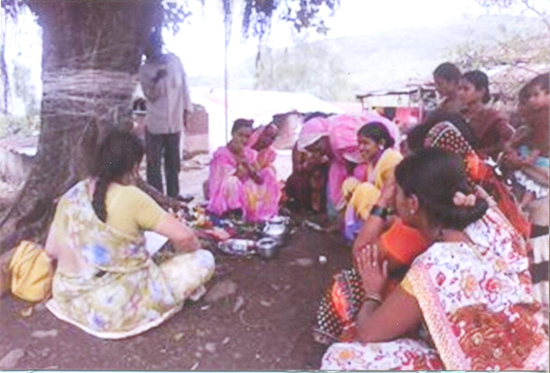 Pooja of Banyan Tree